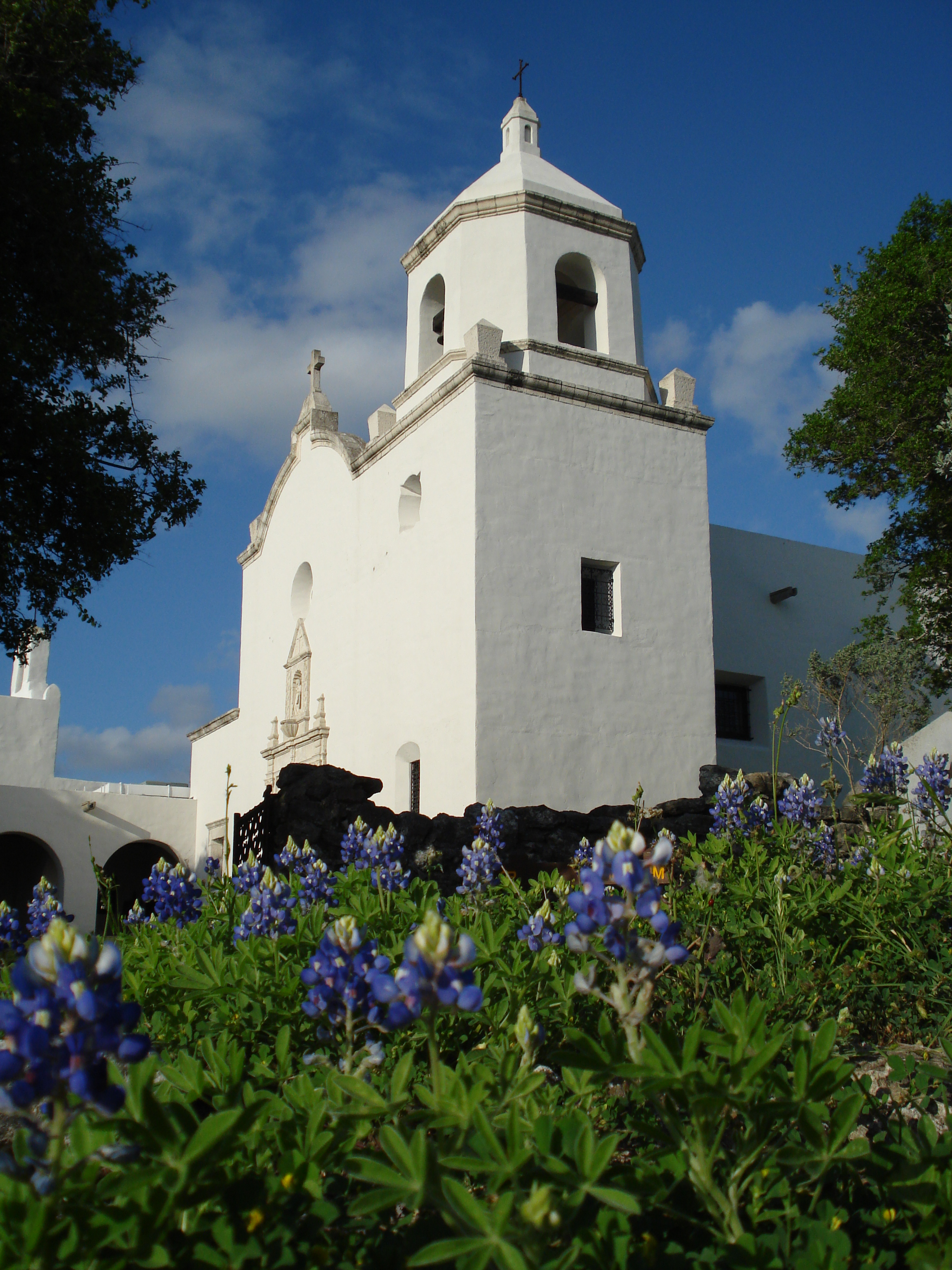 Shot in springtime when bluebonnets are at their peak in Texas. No filters or photoshopping used.